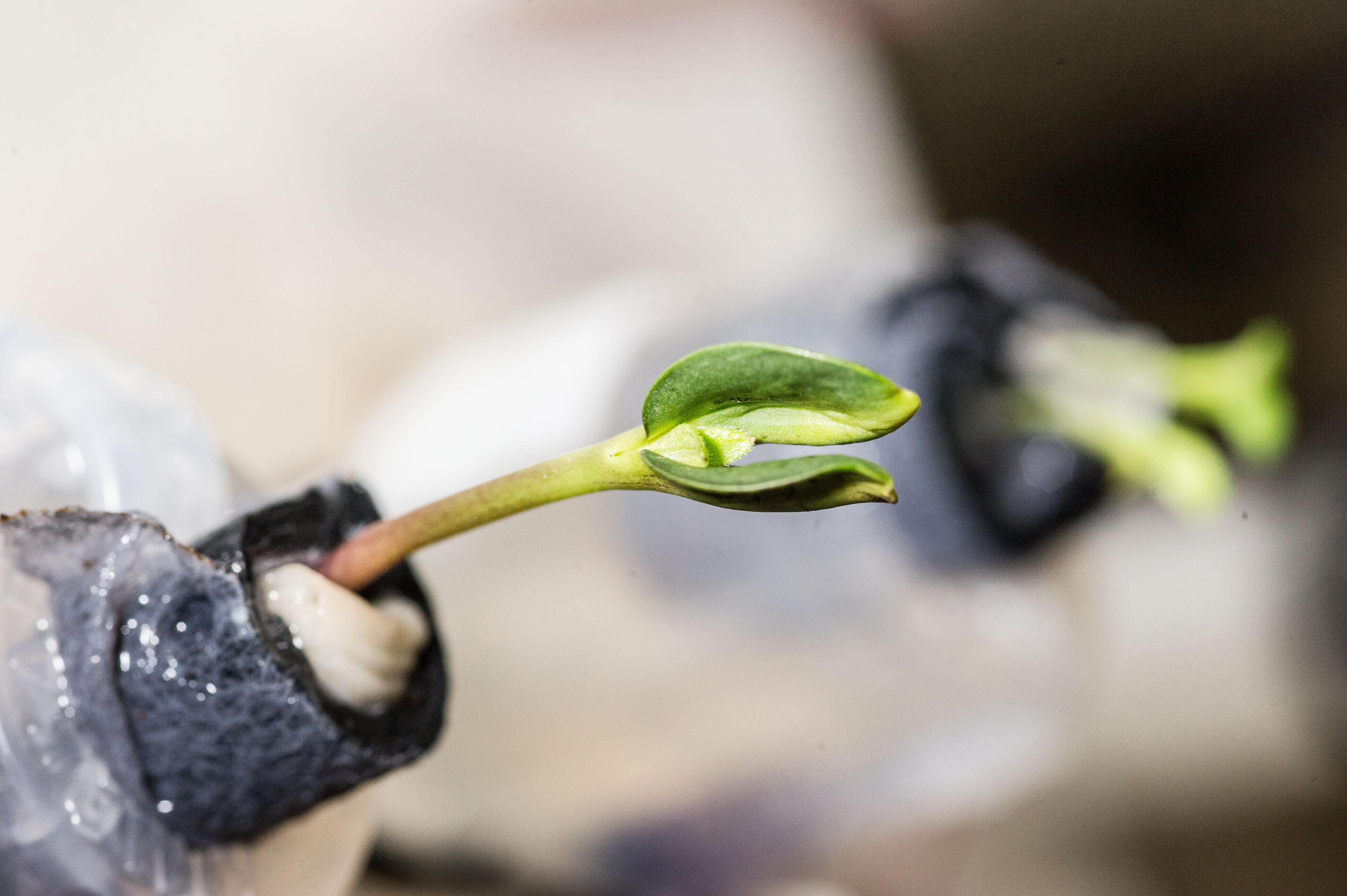 A young sunflower plant is being closely monitored by the Expedition 38 crew members onboard the Earth-orbiting International Space Station.